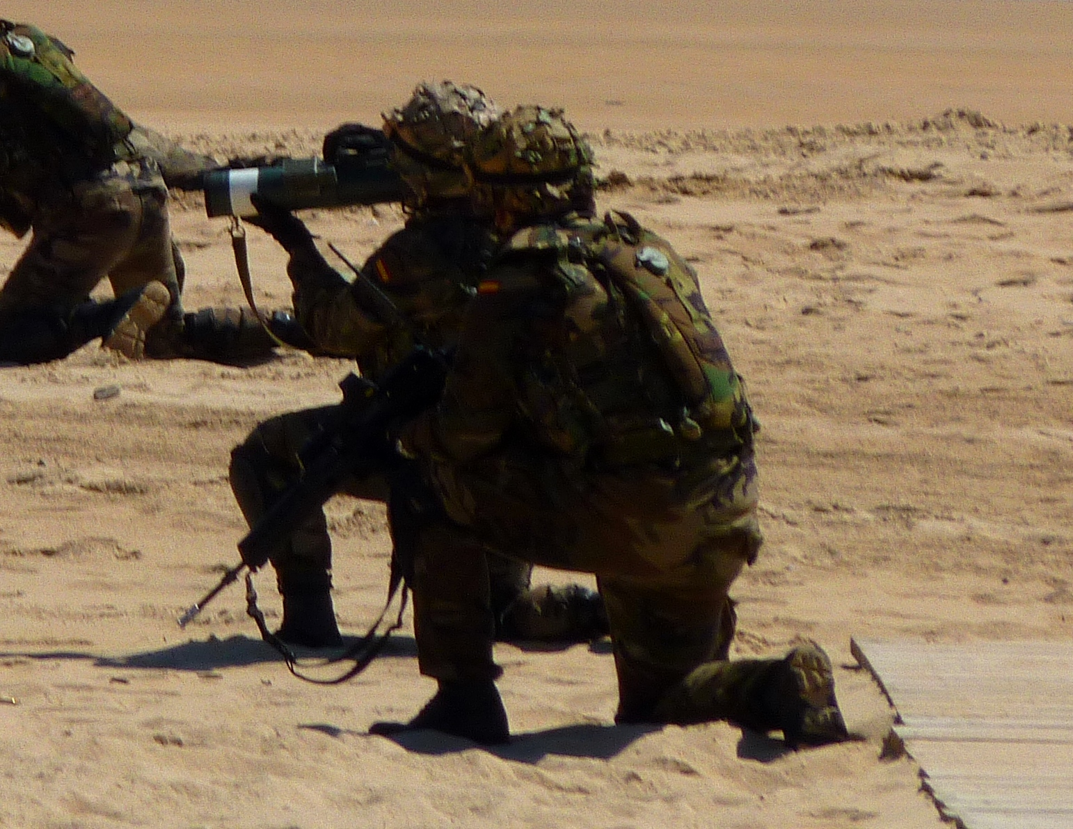 Spanish Marines C-90.